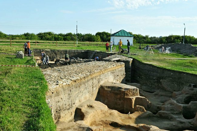 Archeological site in the museum-reserve of history and architecture in Bolgar, Republic of Tatarstan